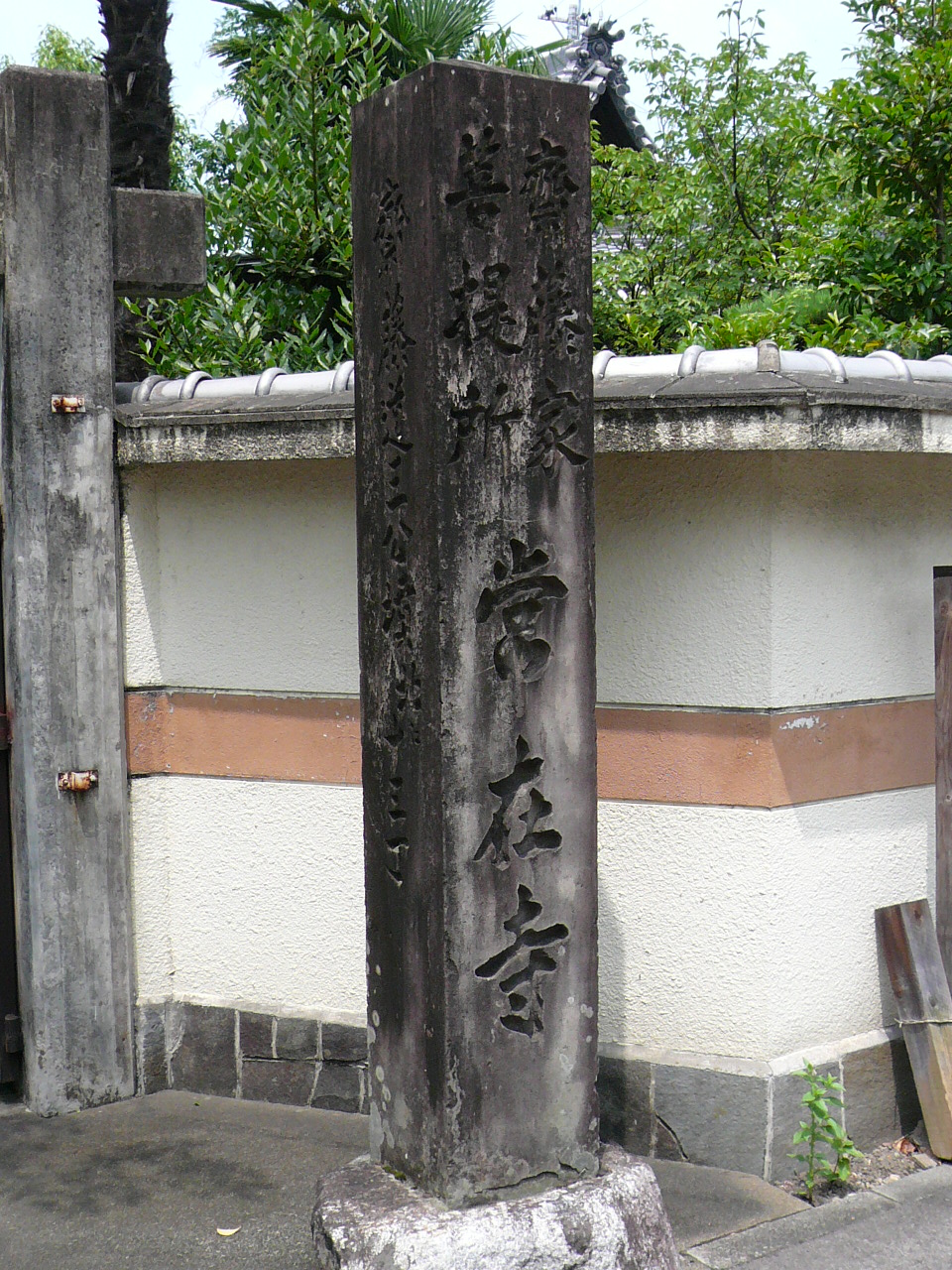 I took this picture of Jozai-ji Temple in July 2007.